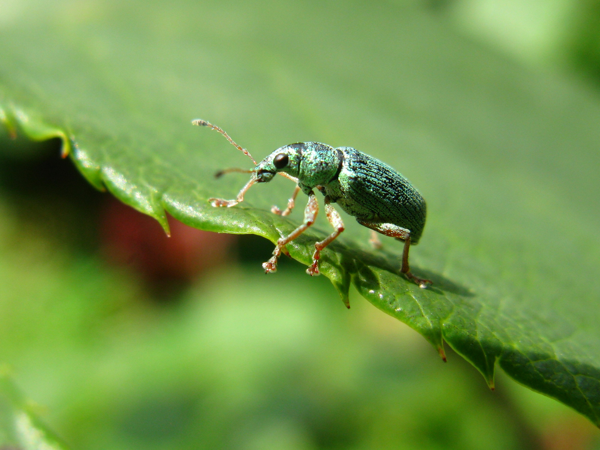 Pachyrhinus, Curculionidae, Southern Germany near Stuttgart, 2009.